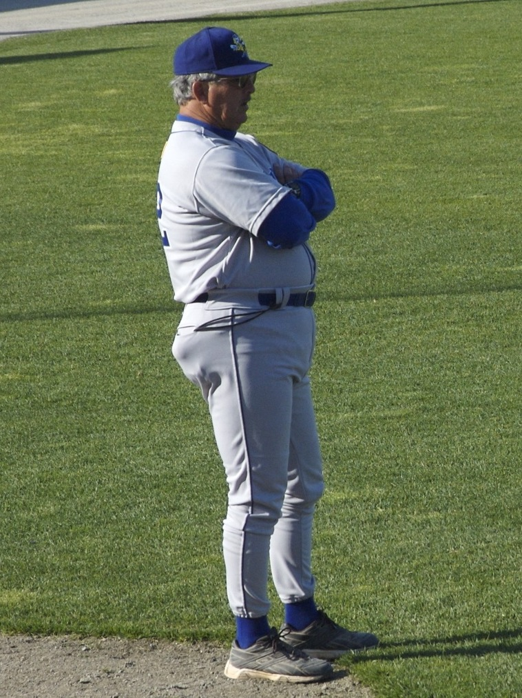 Steve Leubber and Jeff Howell with the Burlington Bees in 2006